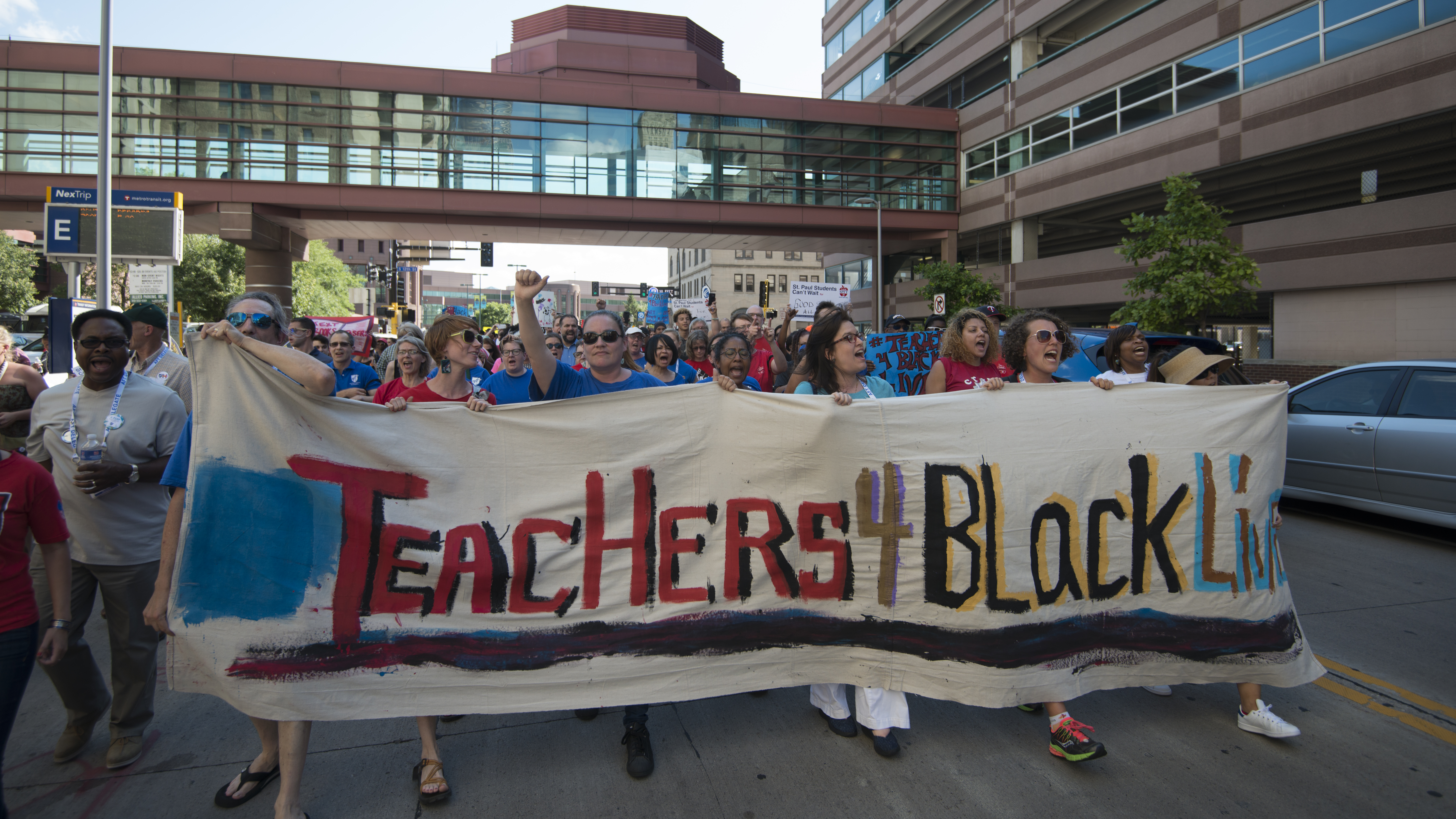 July 19, 2016 Minneapolis, Minnesota About 1000 teachers, union members and other people marched through downtown Minneapolis calling for justice for Philando Castile. 2016-07-19 This is licensed under a Creative Commons Attribution License. Give attribution to: Fibonacci Blue